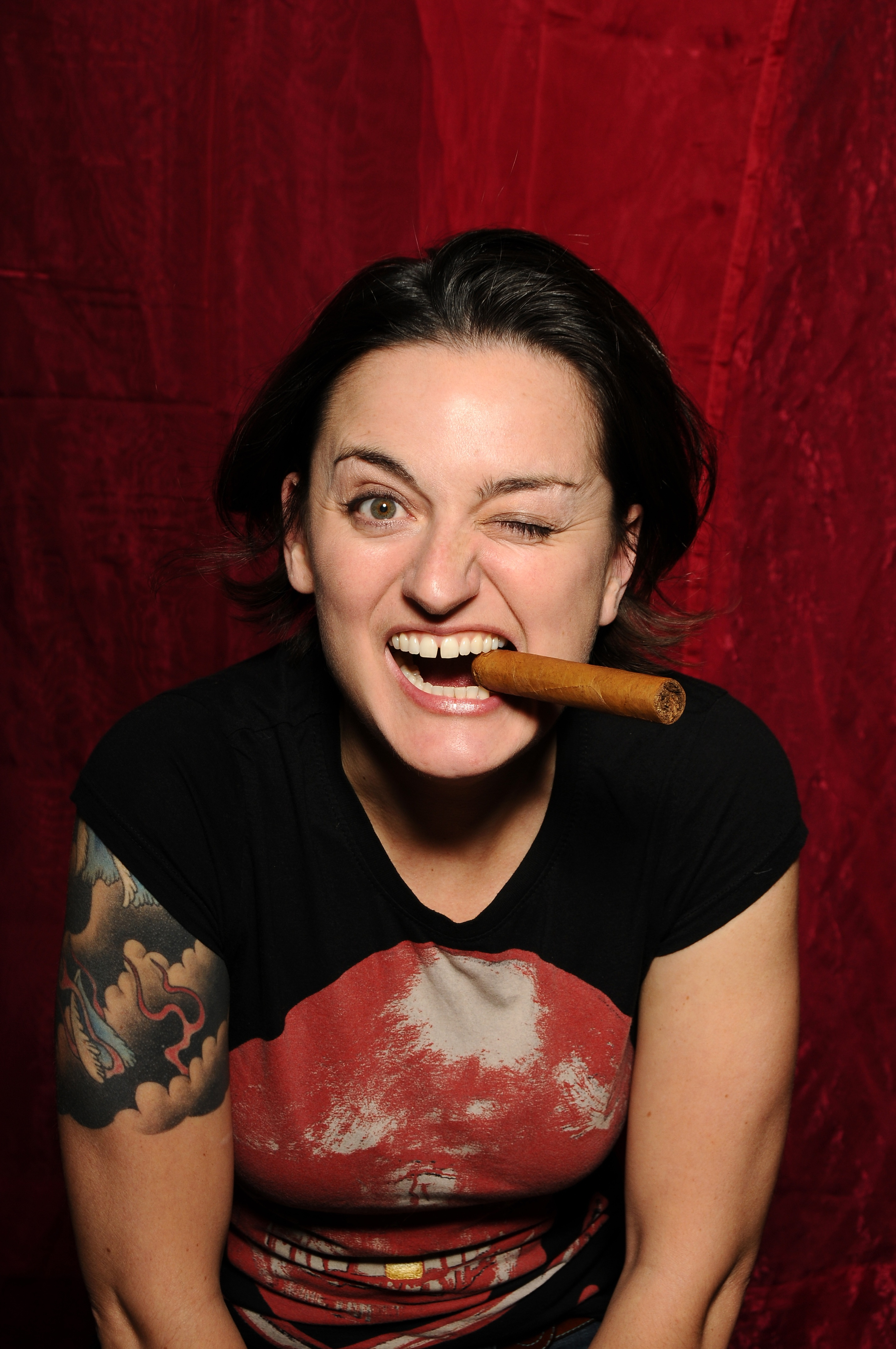 Comedian, Zoe Lyons, publicity shot